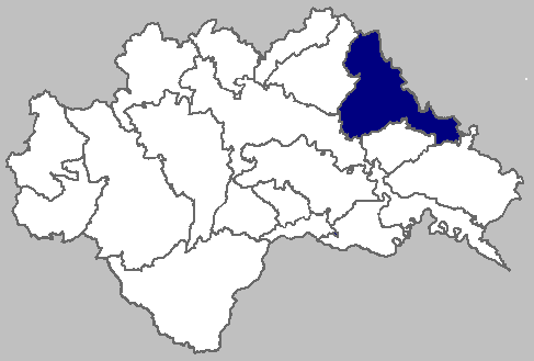 Self-made map of Kutina municipality within Sisak-Moslavina County.